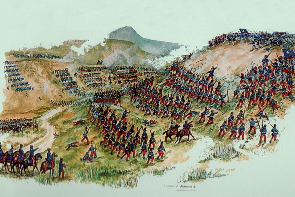 Imagen de la Batalla de Los Loros acontecido el 14 de marzo de 1859.